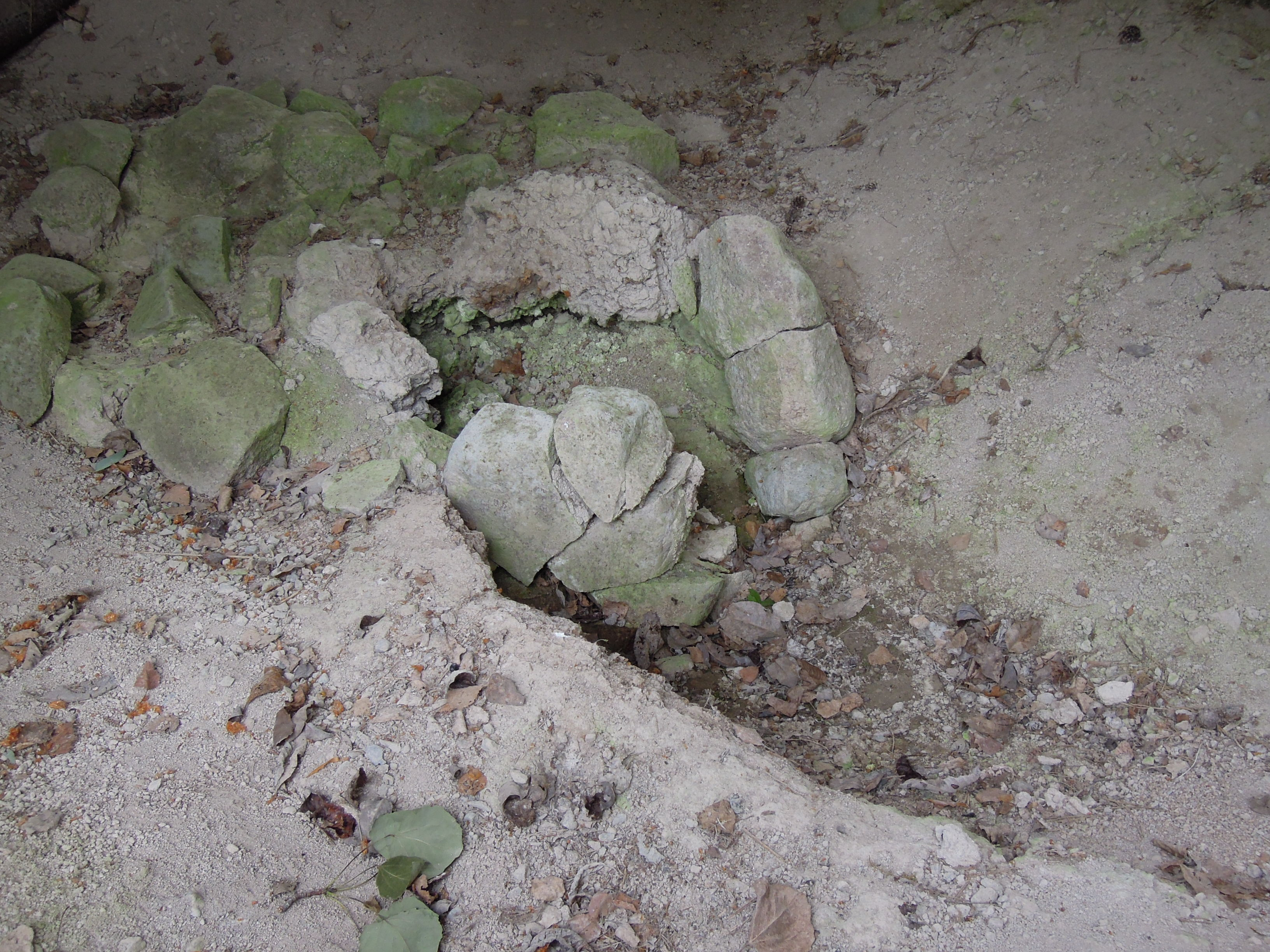 Medieval blast furnace at Dunshammar, Ängelsberg, Sweden.